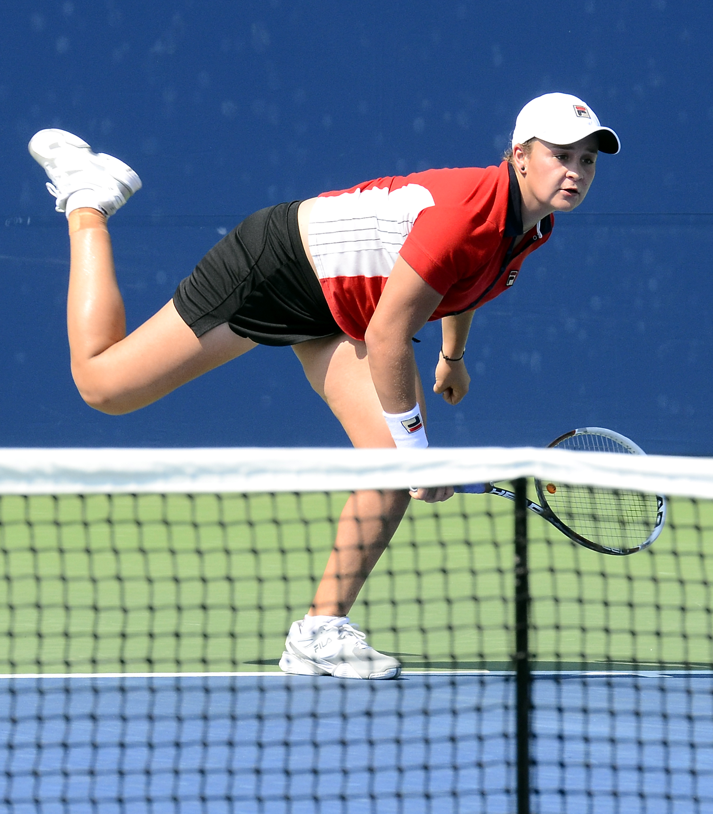 August 26, 2014 Queens, NY Barbora Zahlavova Strycova (CZE) def. Ashleigh Barty (AUS)